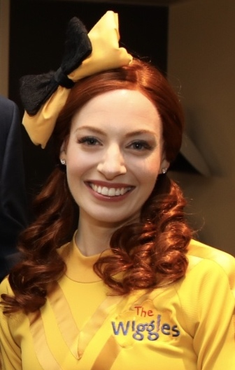 Emma Watkins in Toronto